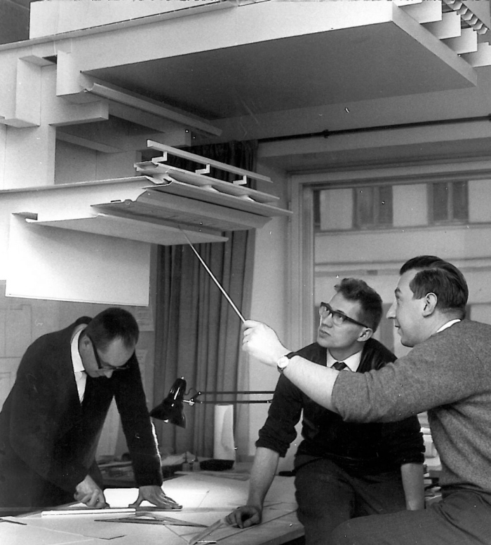 Photograph of the Finnish architect Timo Penttilä (1931–2011) at work. From right to left: Timo Penttilä, Pekka Salminen, Jukka Siivola.